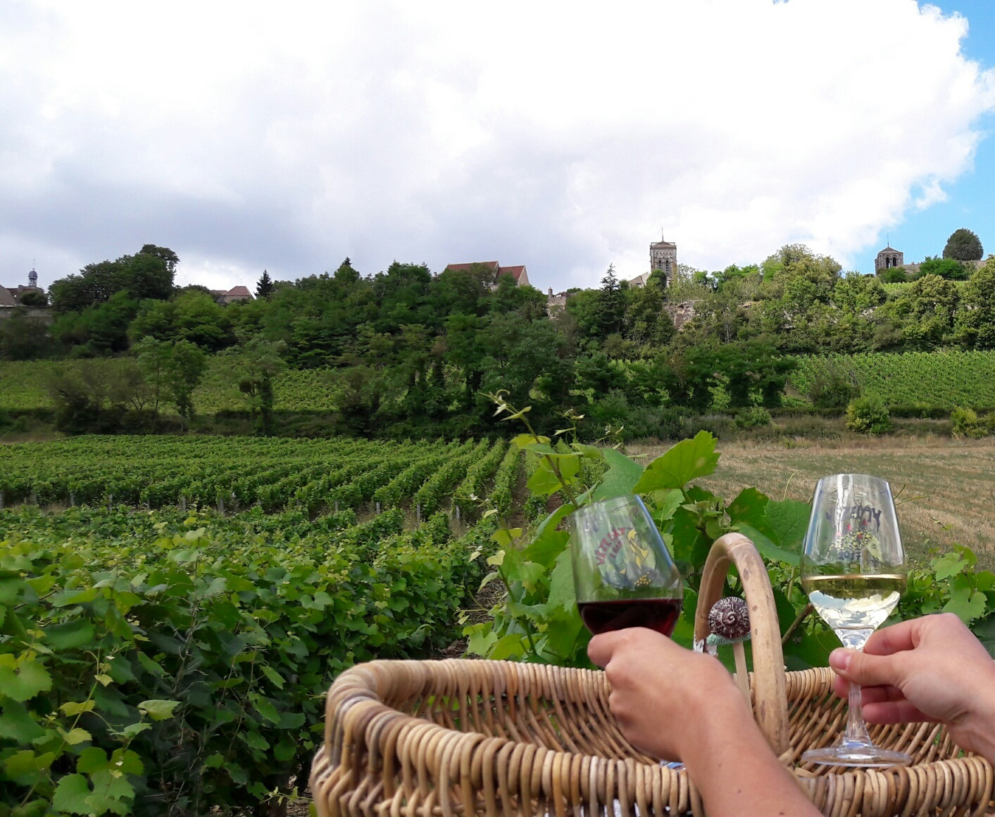 Vezelay